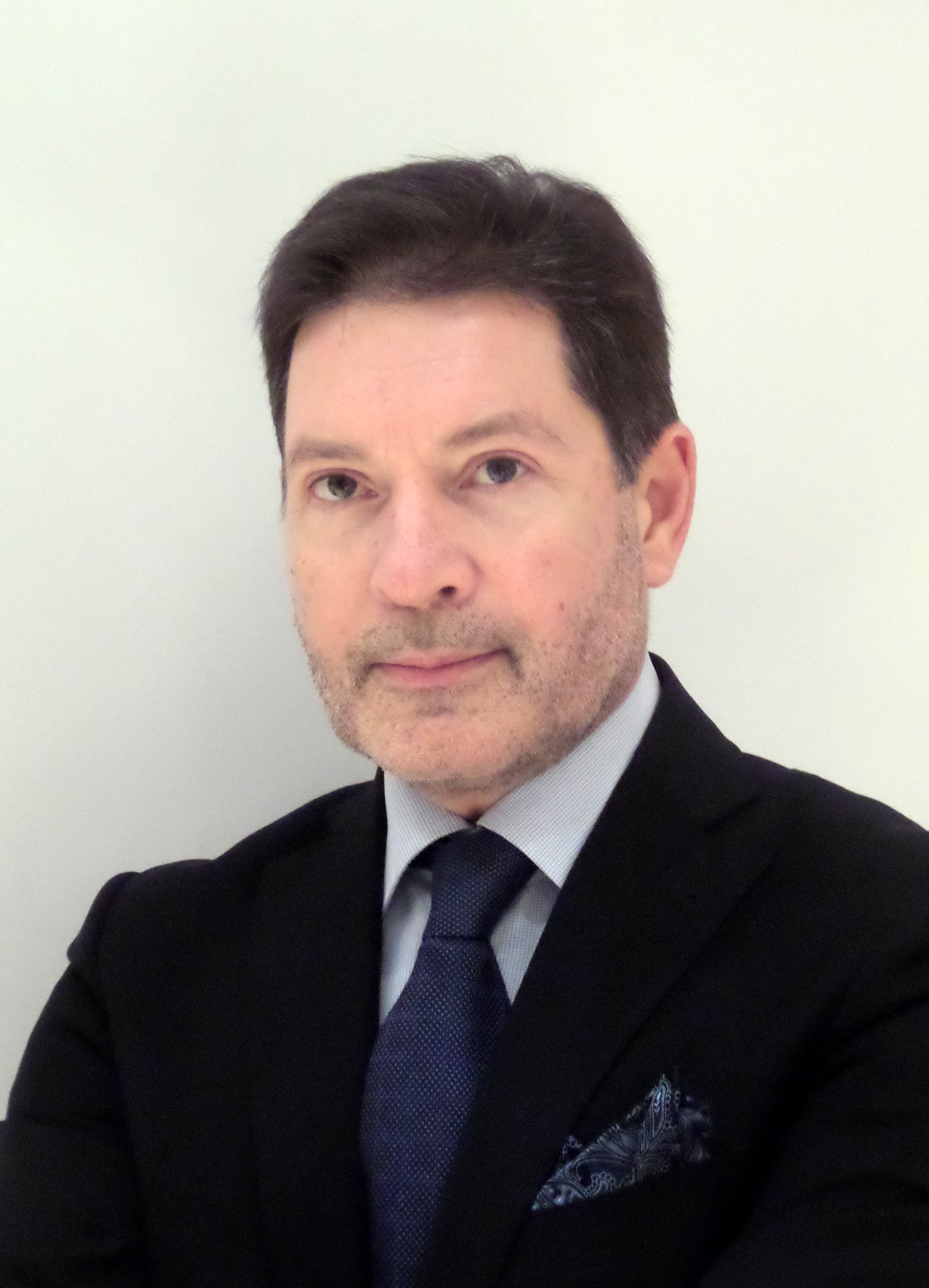 Andrey Bezrukov - Personal photo archive